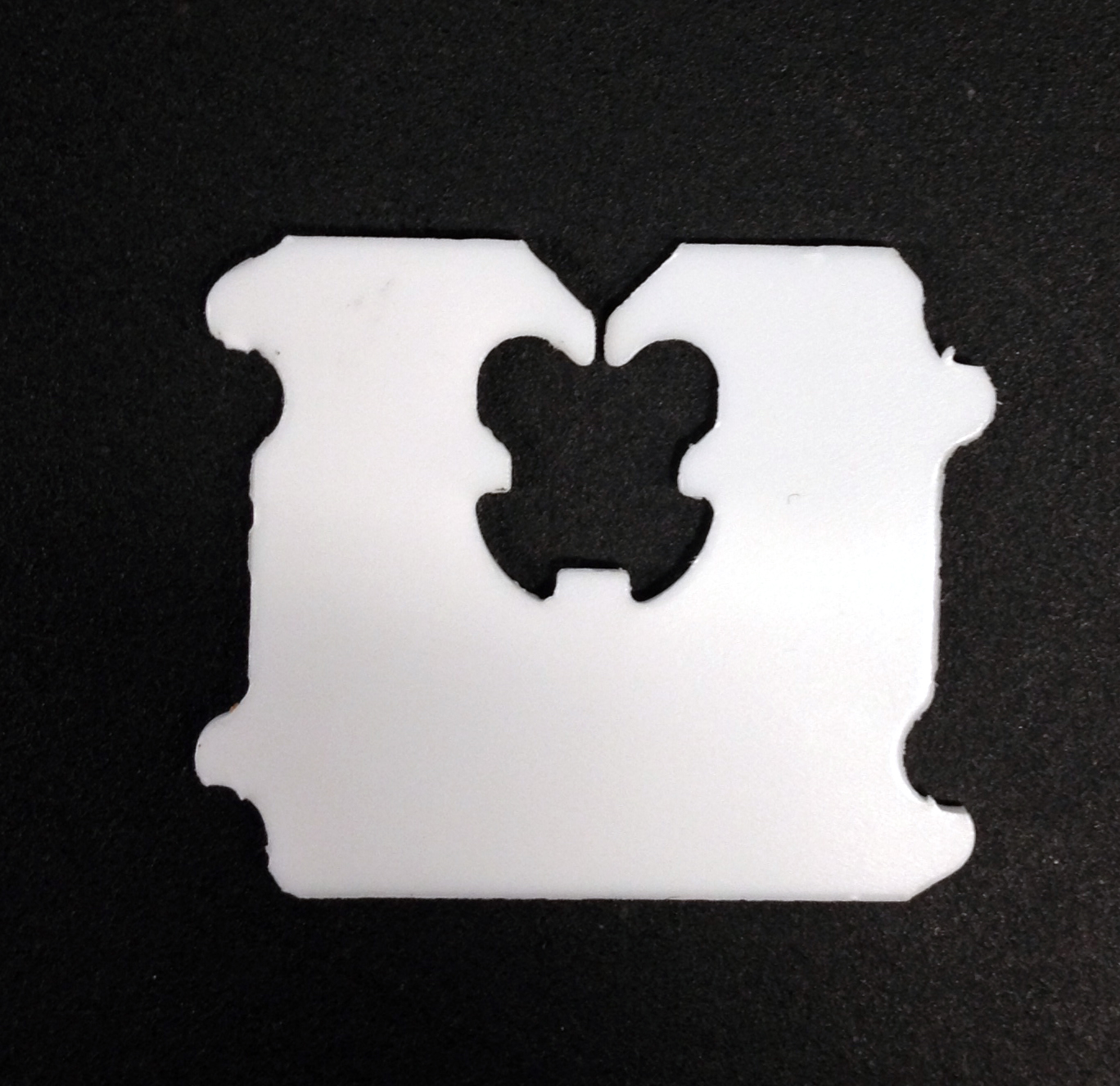 Breadclip